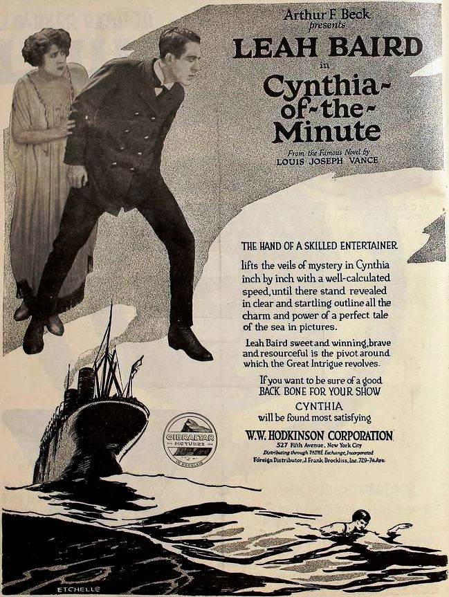 Ad for the American film Cynthia of the Minute (1920) with Leah Baird and Hugh Thompson, on page 4558 of the June 5, 1920 Motion Picture News.